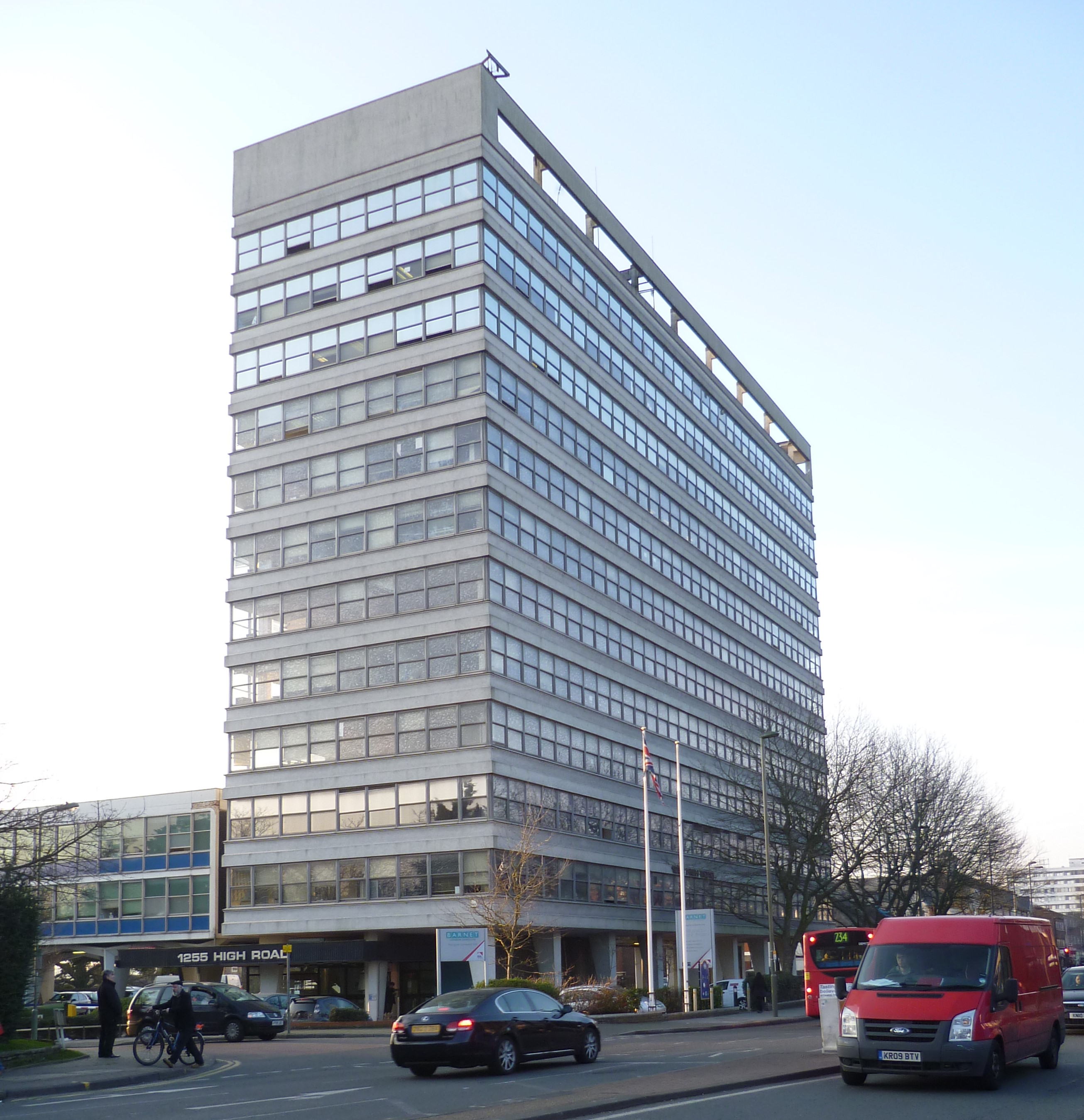 Whetstone